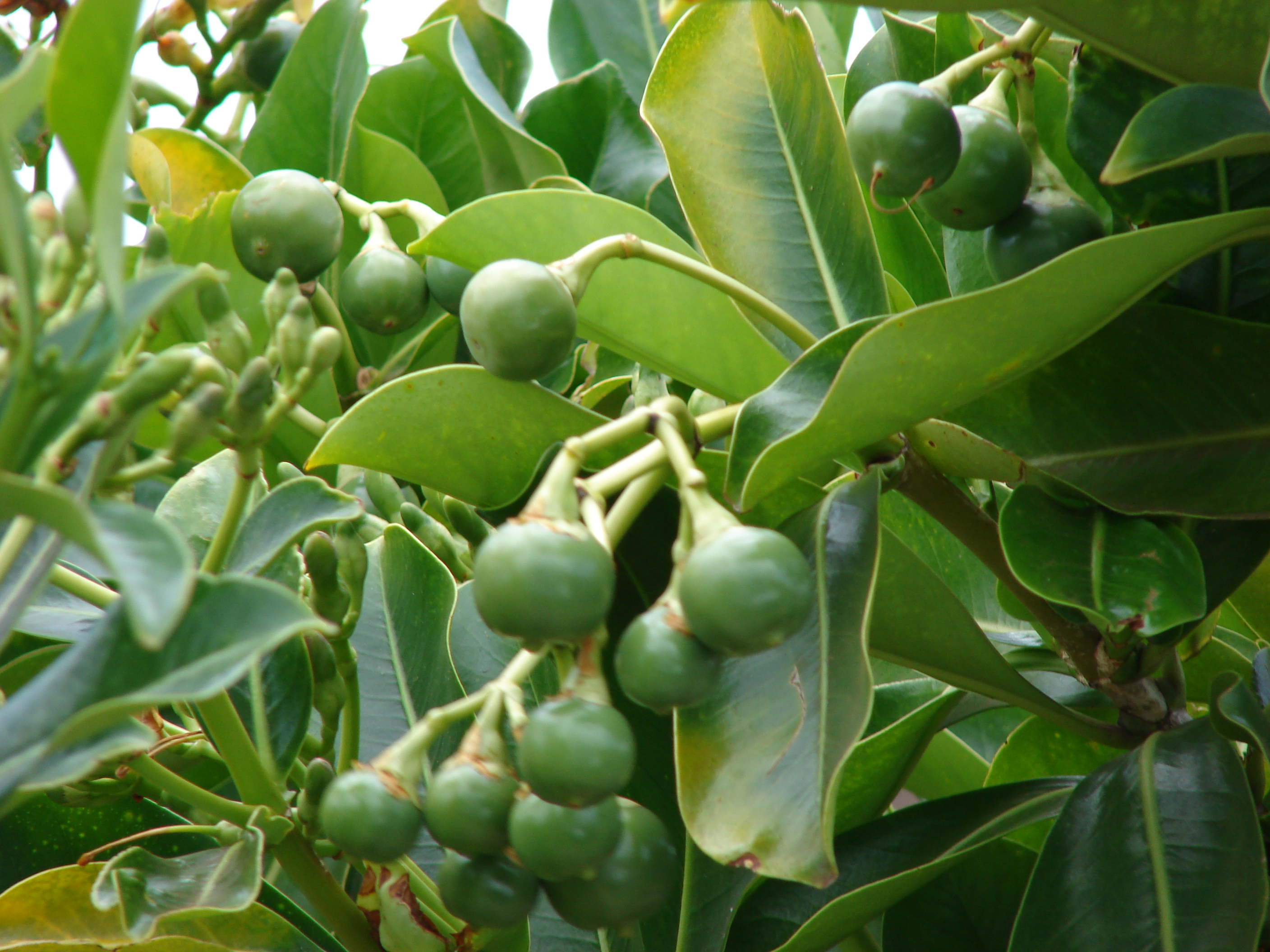 Fagraea berteroana (green fruit). Location: Maui, Makawao